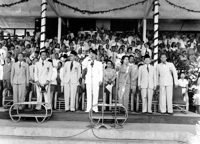 President Soekarno and vice president Hatta at the opening ceremony of the National Olympic Week (Pekan Olahraga Nasional) at Djakarta